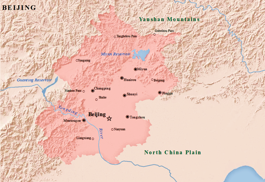 Map of the directly-controlled municipality of Beijing